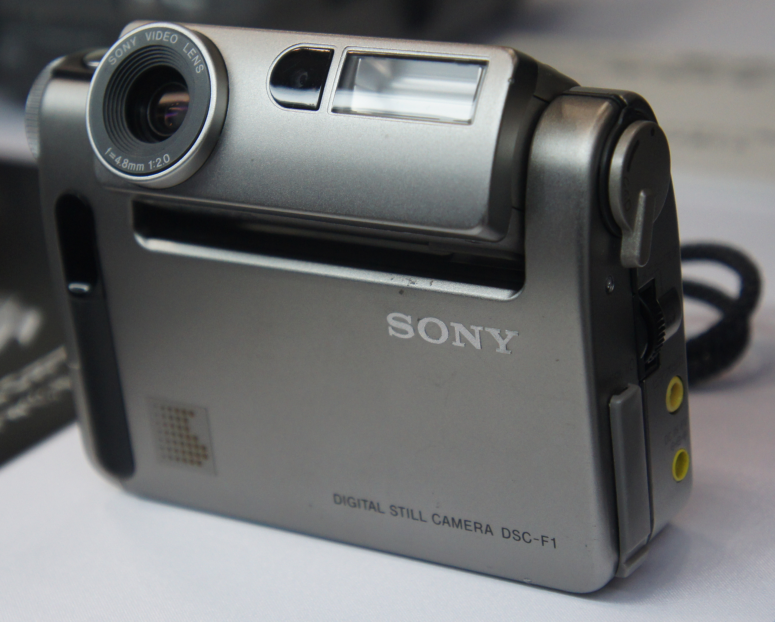 CP+ 2011: 1996 Sony Cyber-shot DSC-F1